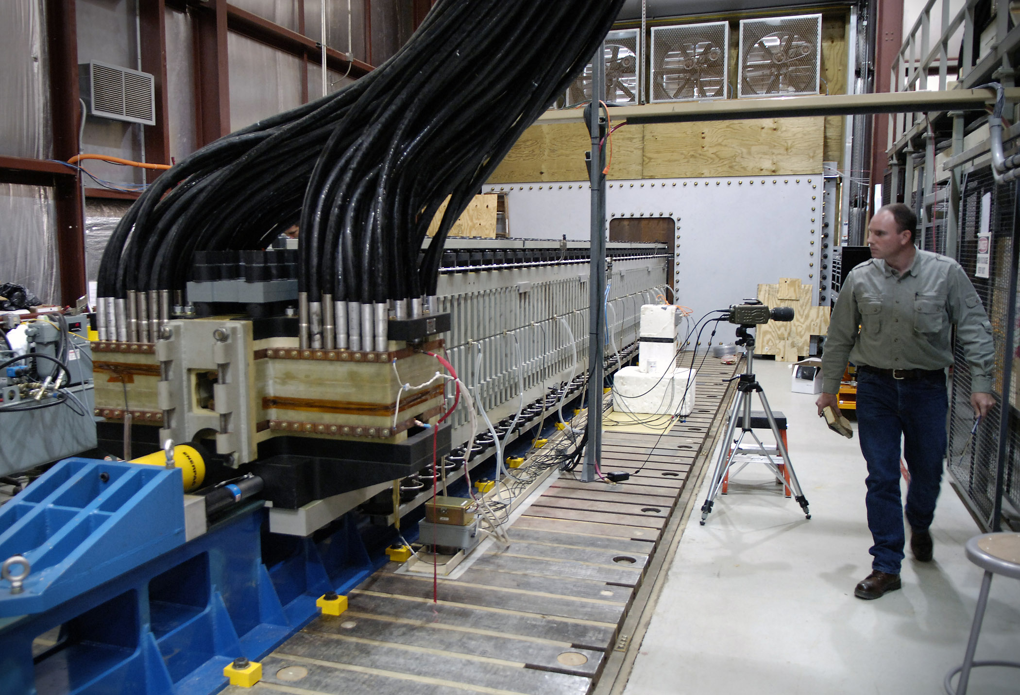 DAHLGREN, Va. (Nov. 28, 2007) Jim Poyner, senior engineer, Gun Weapons Branch, Office of Naval Research performs a final inspection prior to the testing of the 32-megajoule Electro-Magnetic Laboratory Rail Gun laboratory launcher, located at the Naval Surface Warfare Center Dahlgren Division. U.S. Navy photo by John F. Williams (Released)